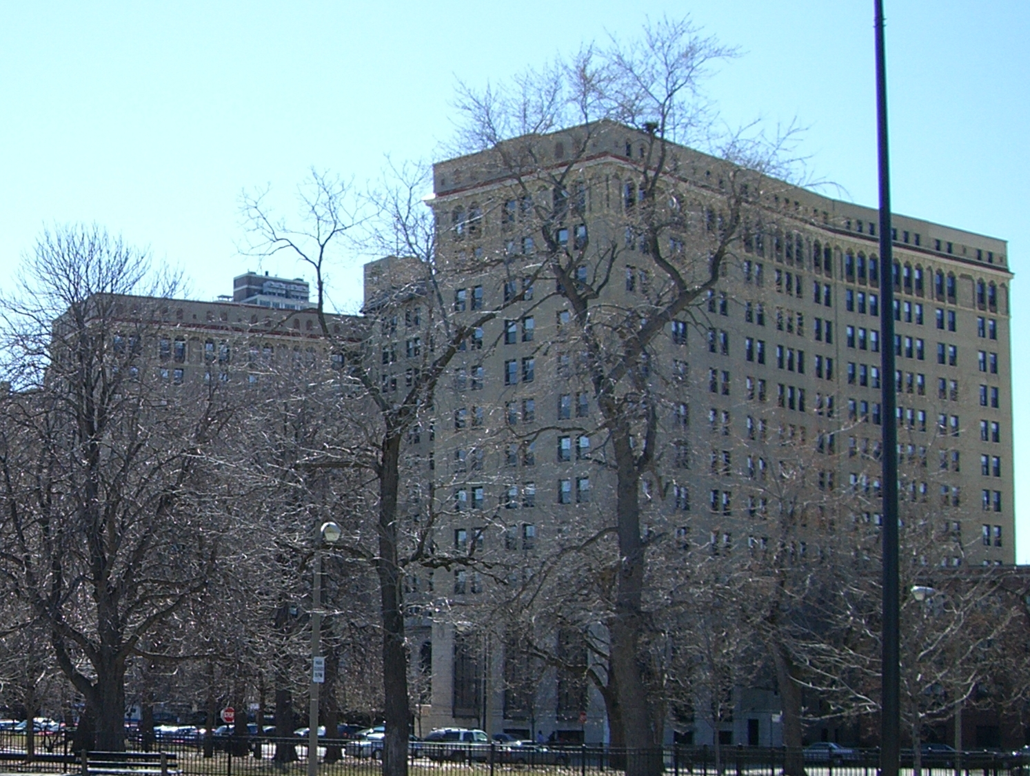 Photo of the former Shoreland Hotel, Chicago, Ill.